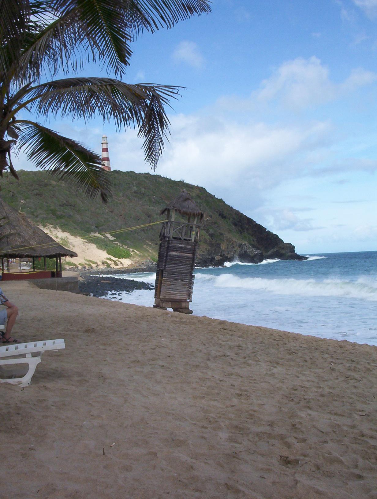 Playa Puerto Cruz beach and watchtower (2004) Author: Maccer